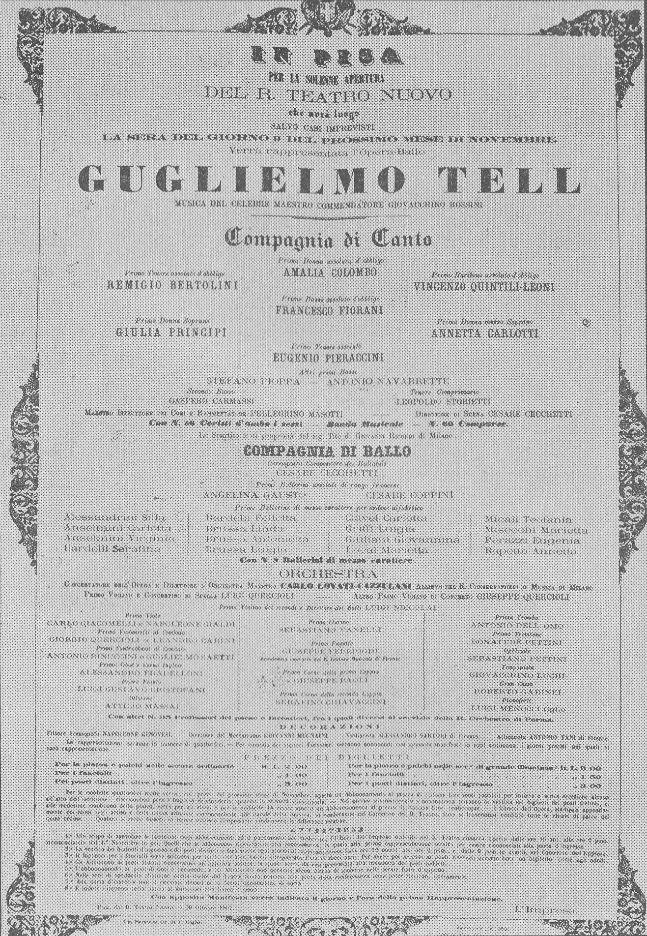 First manifest of the new theatre of Pisa, Tuscany, Italy.